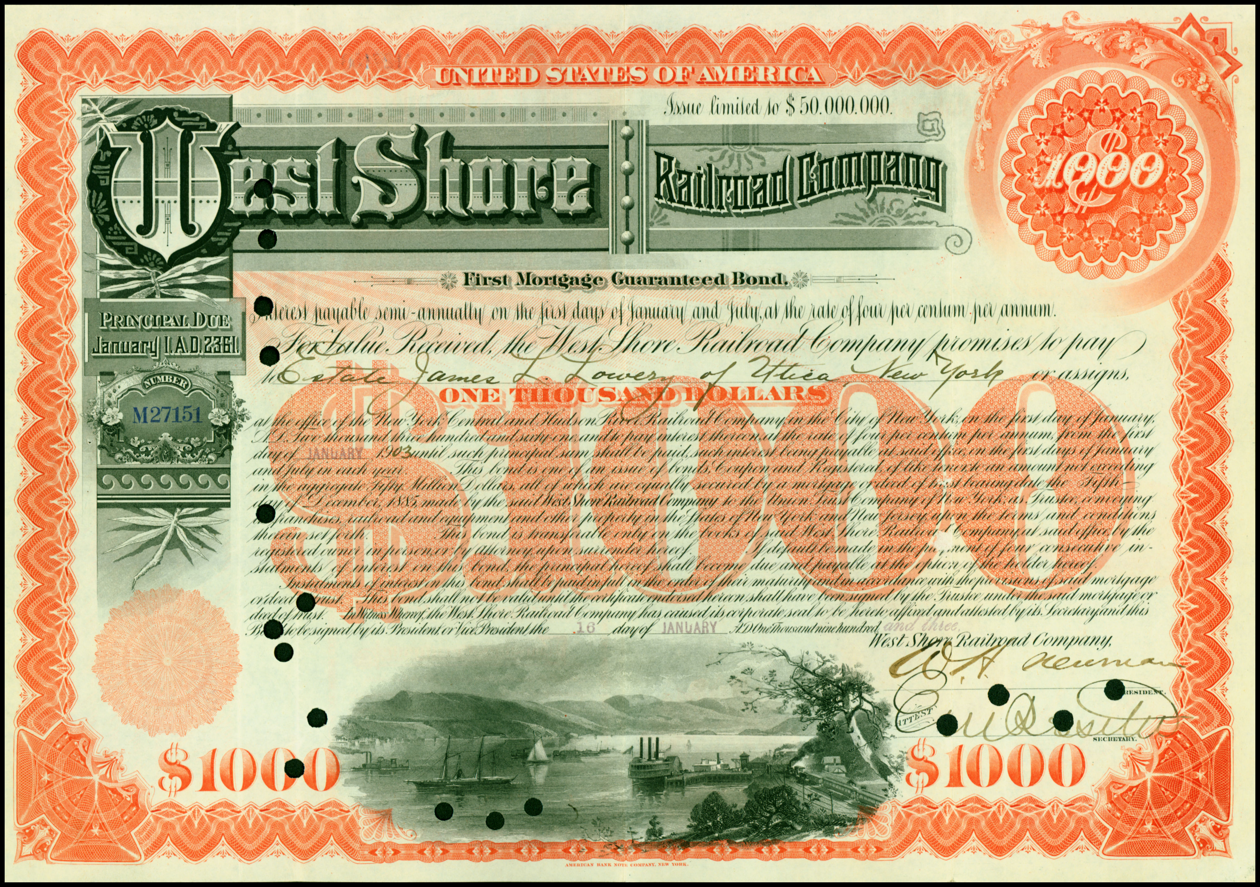 Bond of the West Shore Railroad Company, issued 16. January 1903